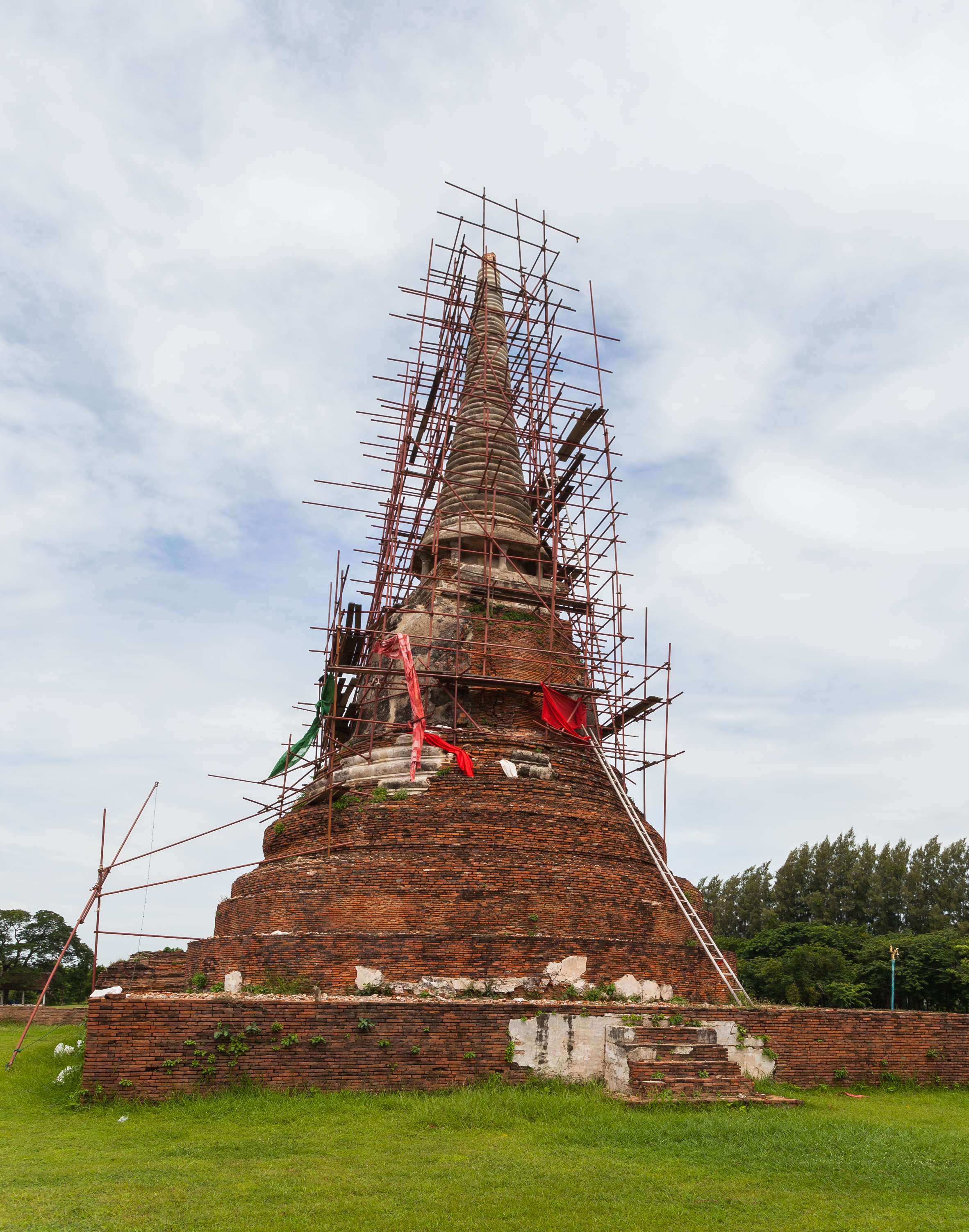 Mahathat Temple, Ayutthaya, Thailand